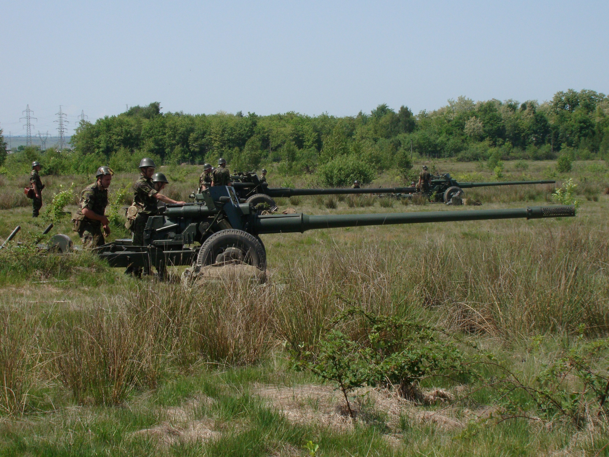 Soldiers from the 612th Anti-tank Battalion training with 100mm Model 1977 anti-tank guns.